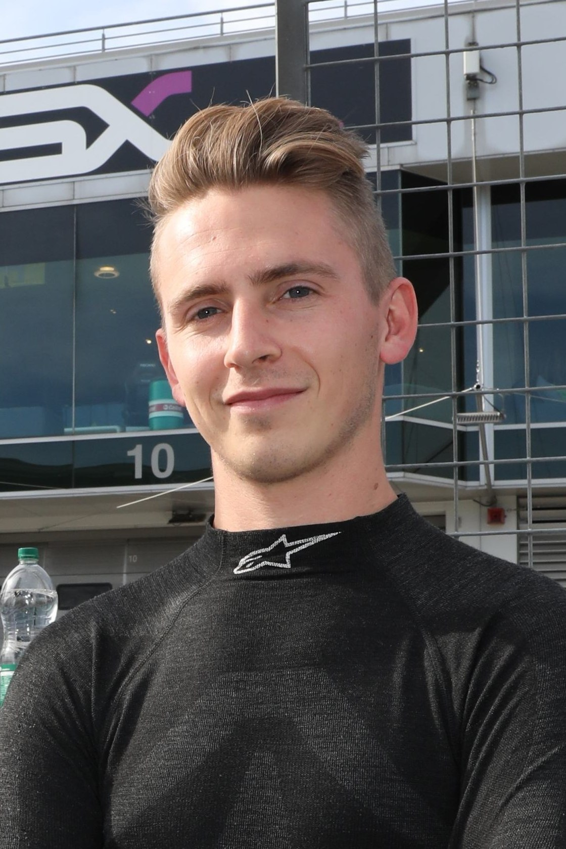 Driver Denis Dupont at the Nürburgring round of the 2018 Blancpain Sprint Series